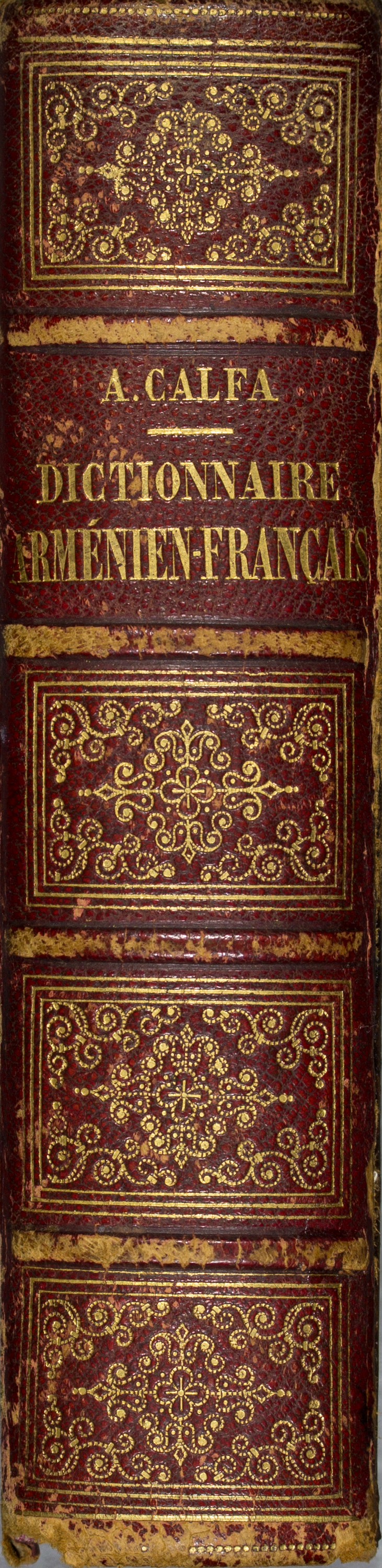 Book spine of Dictionnaire Arménien-Français (1861) by Ambroise Calfa printed in Paris in 1861.